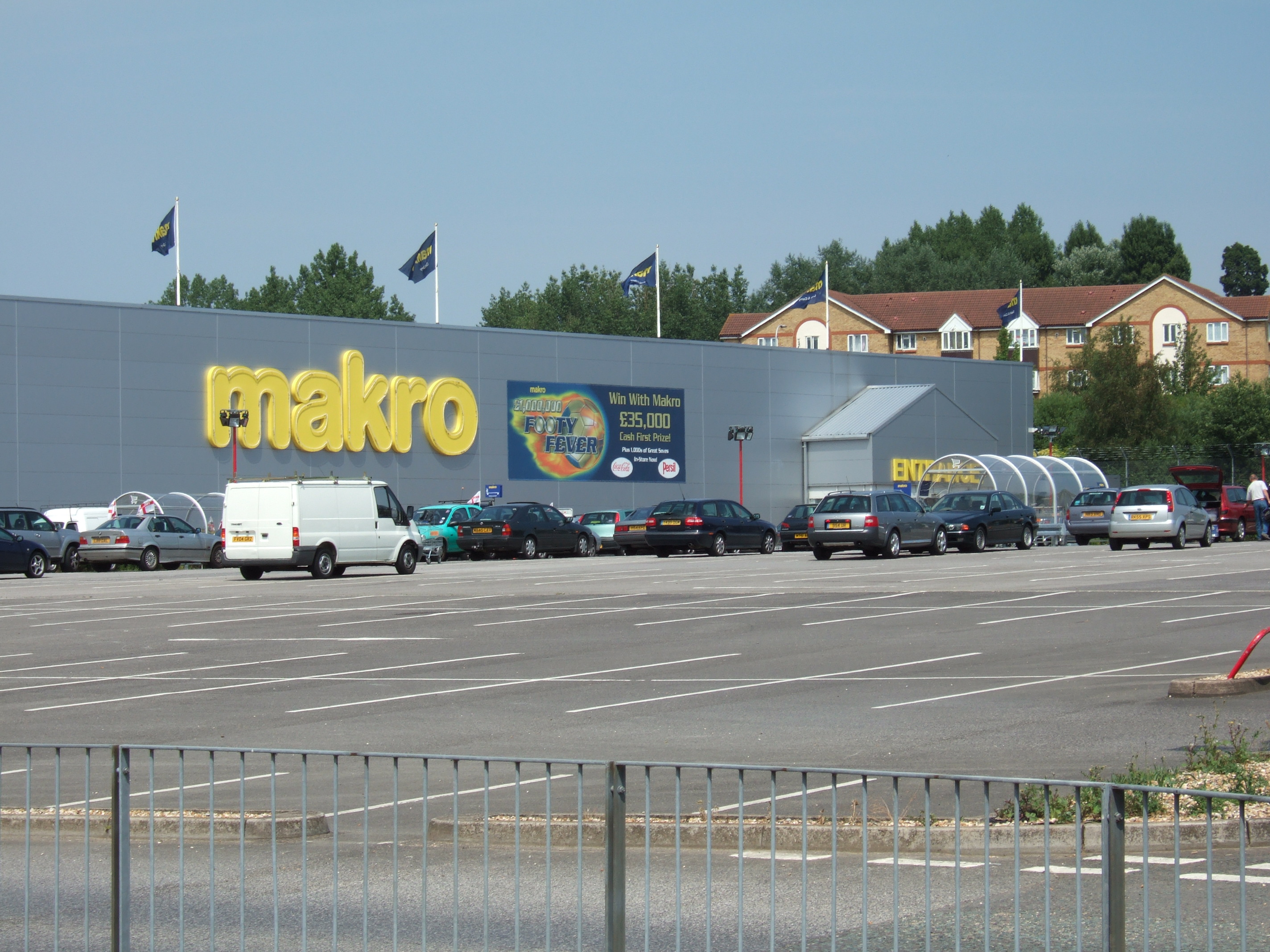 Picture of Makro Warehouse, Reading, Berkshire, UK